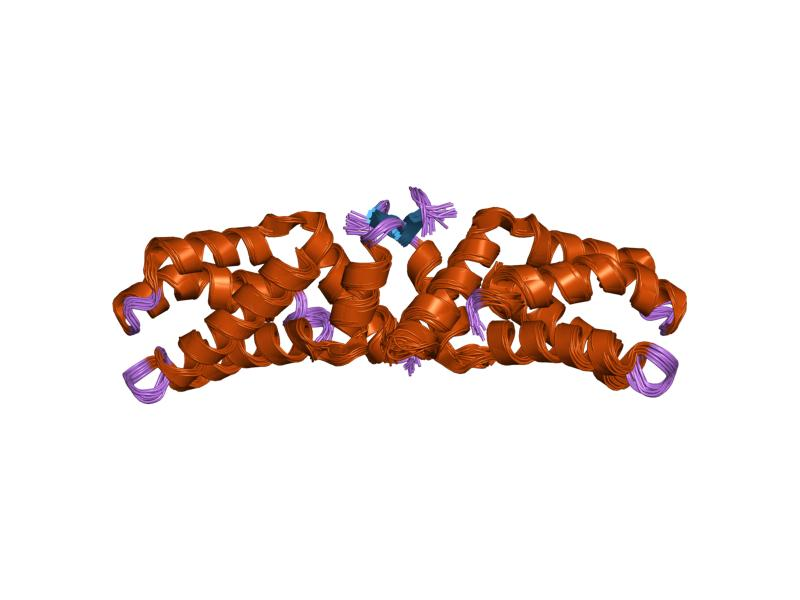 Cartoon representation of the molecular structure of protein registered with 1rso code.